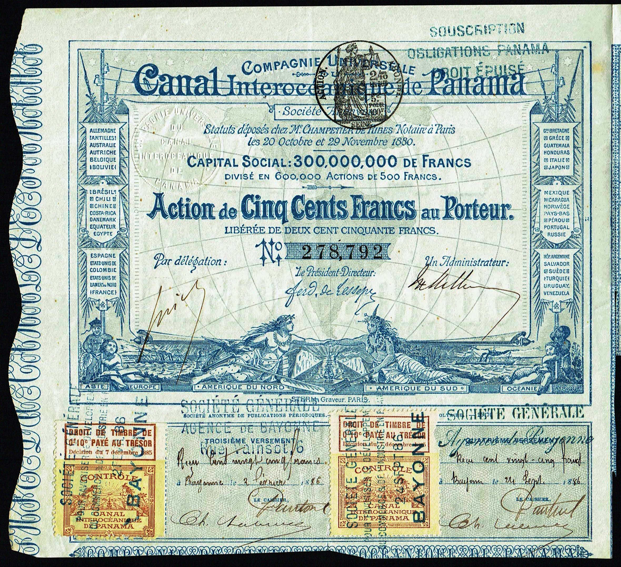 Share of the Compagnie Universelle du Canal Interocéanique de Panama, issued 29. November 1880